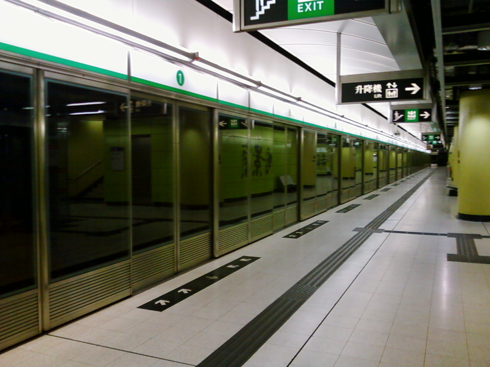 MTR Tiu Keng Leng station Platform 1